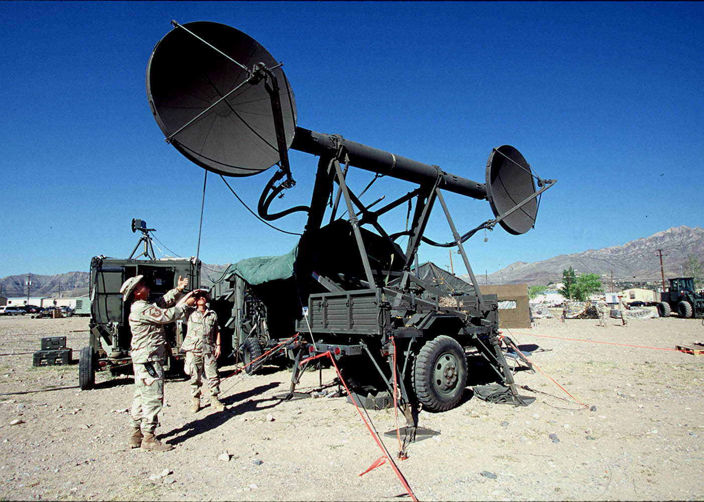 Two members of the 225th Combat Communications Squadron adjust the angle of the dish as they set up a TRAC-170 Wideband System for Exercise Roving Sands 97 at El Paso, Texas, on April 8, 1997. More than 20,000 service members from all branches of the armed forces of the U.S., Canada, Germany, and the Netherlands are participating in Exercise Roving Sands 97. The exercise is designed to refine their skills in operations using an integrated air defense network of ground, missile and radar early warning systems combined with tactical fighter and bomber aircraft operating in a simulated high-threat environment. The 225th, deployed from Martin Air National Guard Station, Gadsden, Ala., will provide communications links for Roving Sands 97.